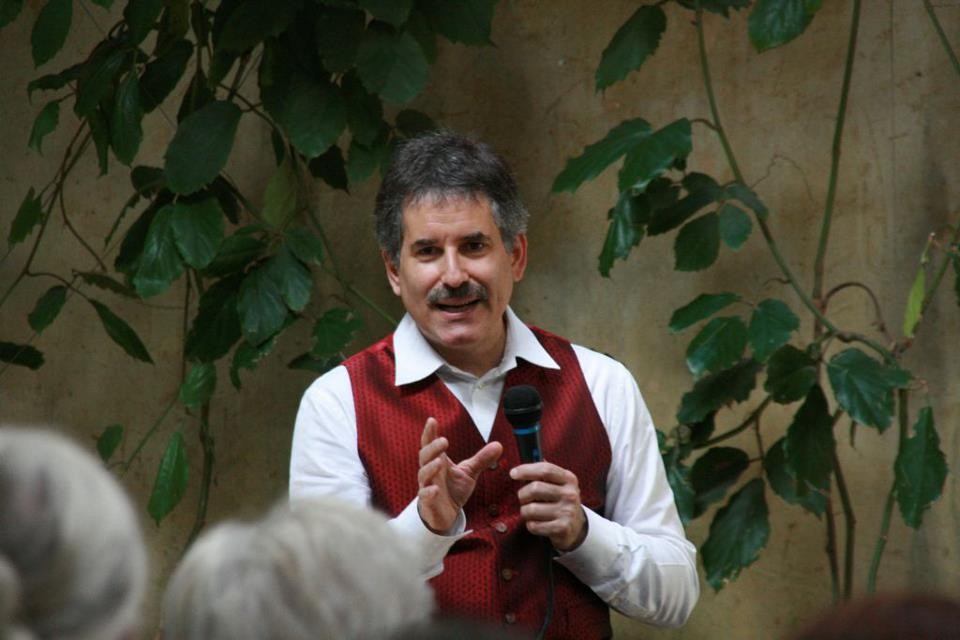 Andrew Cohen teaching in Paris, Spring 2012.jpg